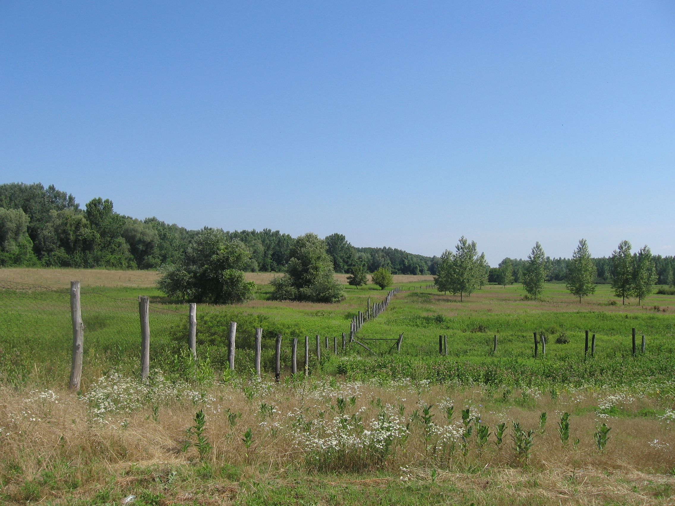 Nature reserve "Karadjordjevo" - Backa Palanka